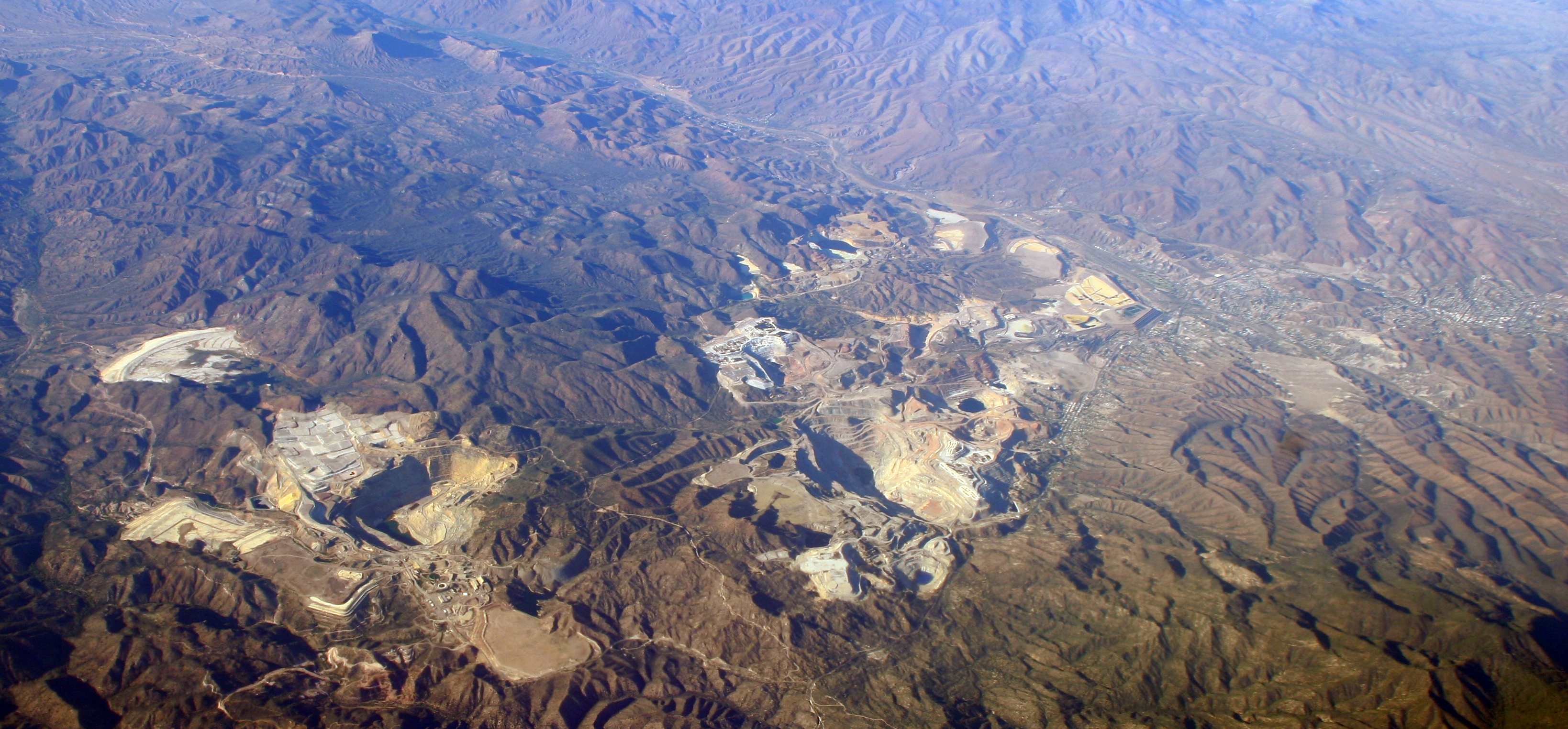 Panaroma of Inspiration (FMCG) & Miami (BHP) operations, Claypool & Miami, AZ, 2007 Miami-Inspiration Mining District